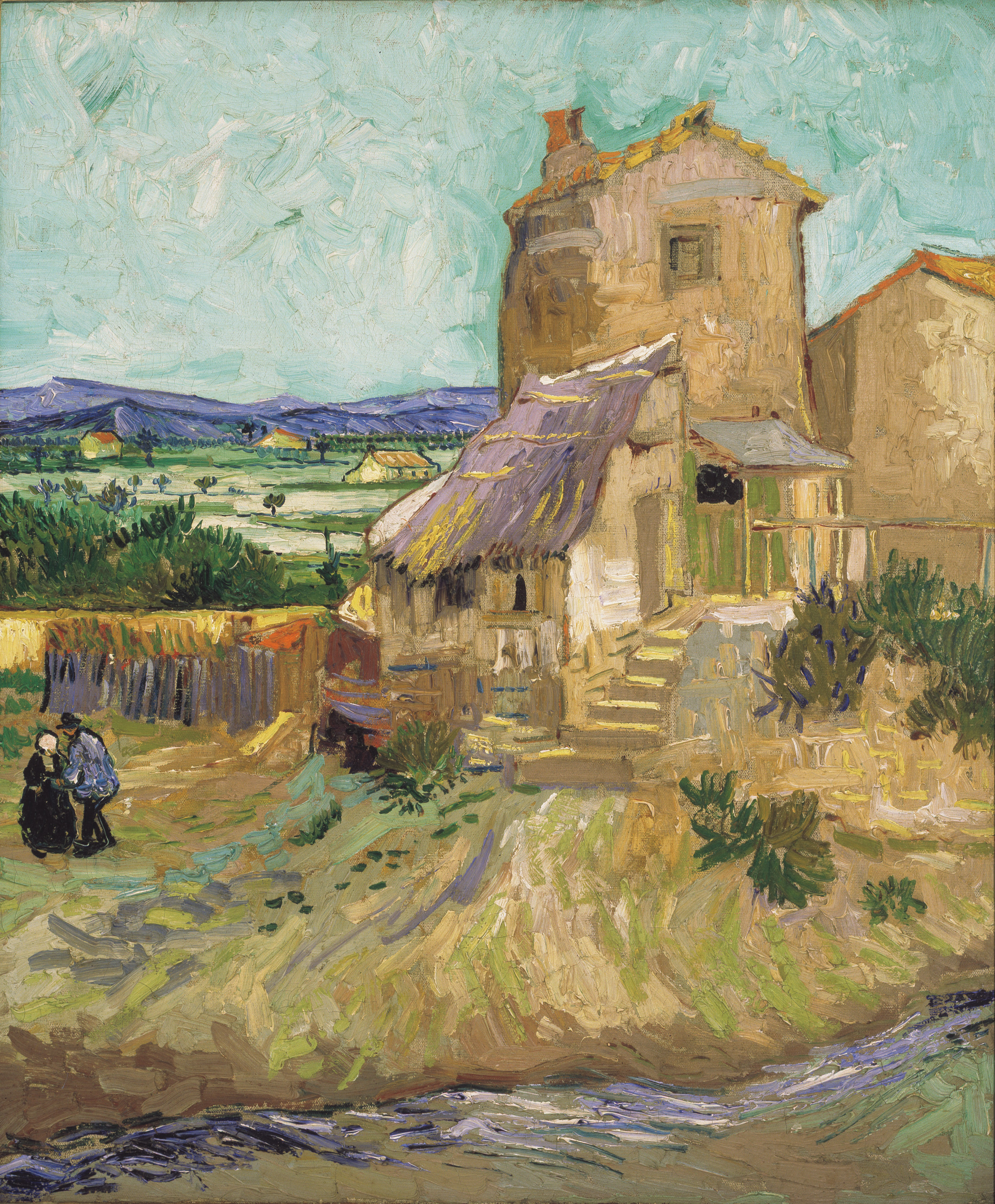 Alternative title(s): The Old Mill